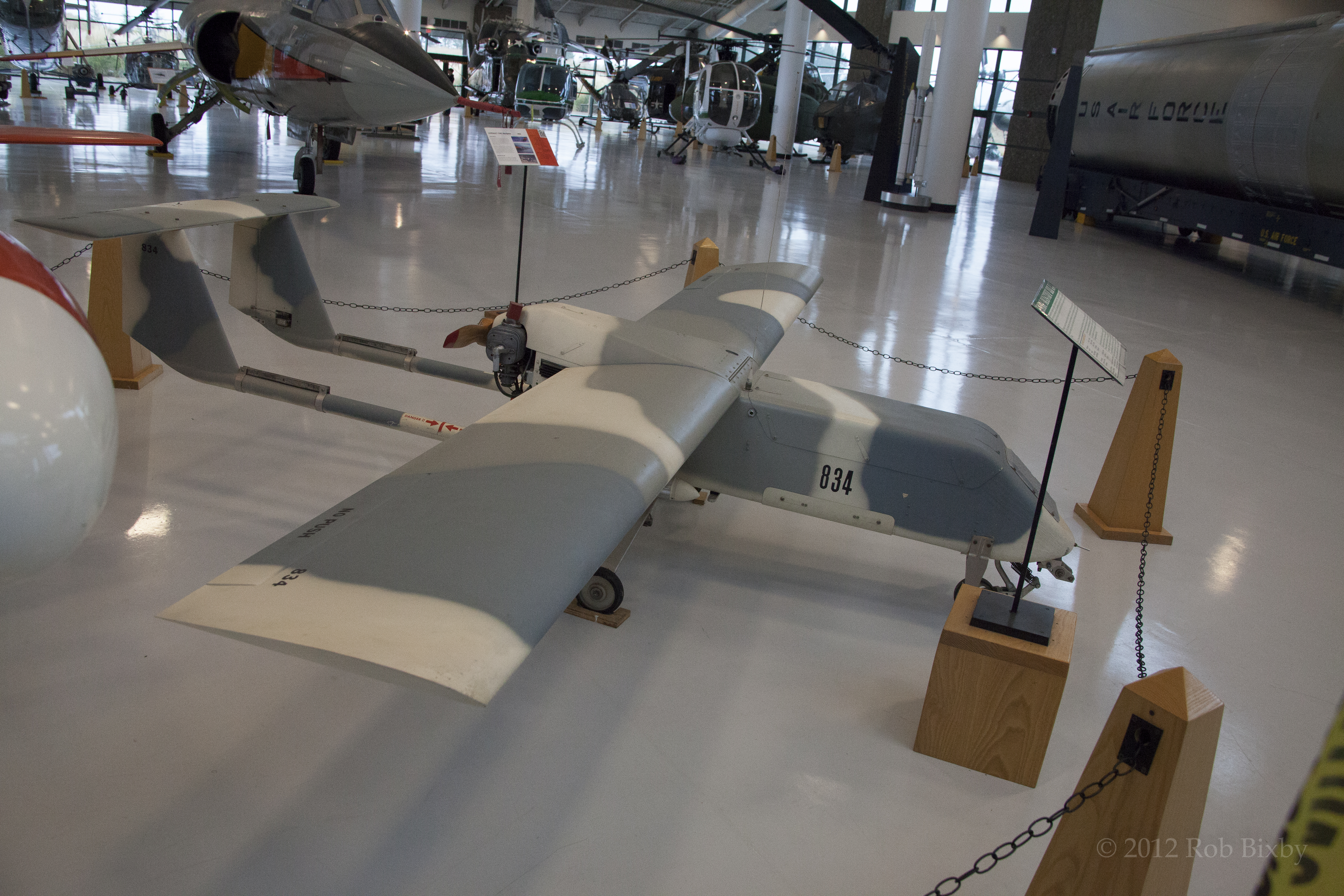 Wa-OR_Vac_10-12-1374